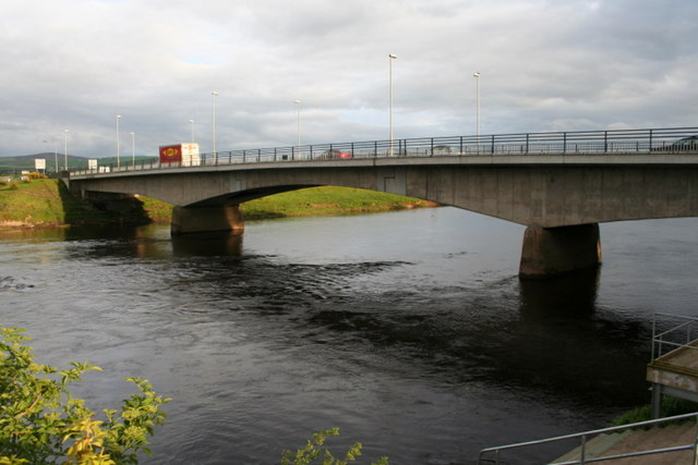 Bridge across the River Foyle at Lifford The Foyle has only just been created about 500 yards upstream with the confluence of the Rivers Mourne and Finn. Strabane lies to the left of the bridge and Lifford to the right.